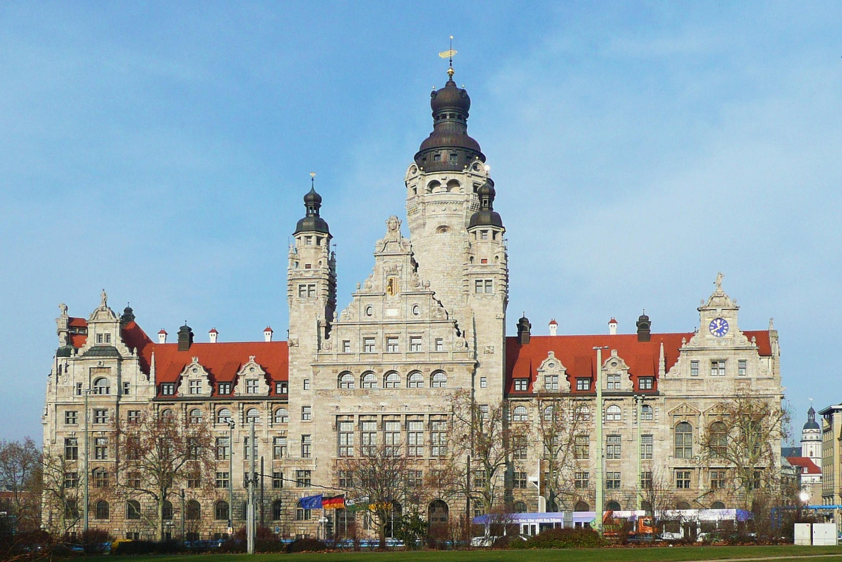 The town hall (built 1899-1905) in Leipzig.